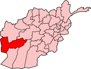 Map of Afghanistan showing Farah Province.